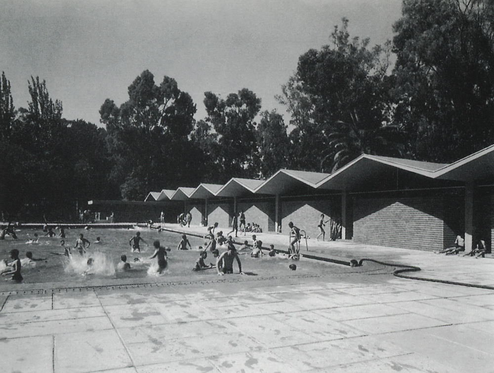 Children's Swimming Pool, Campo Grande, Lisbon (architecture: Keil do Amaral)